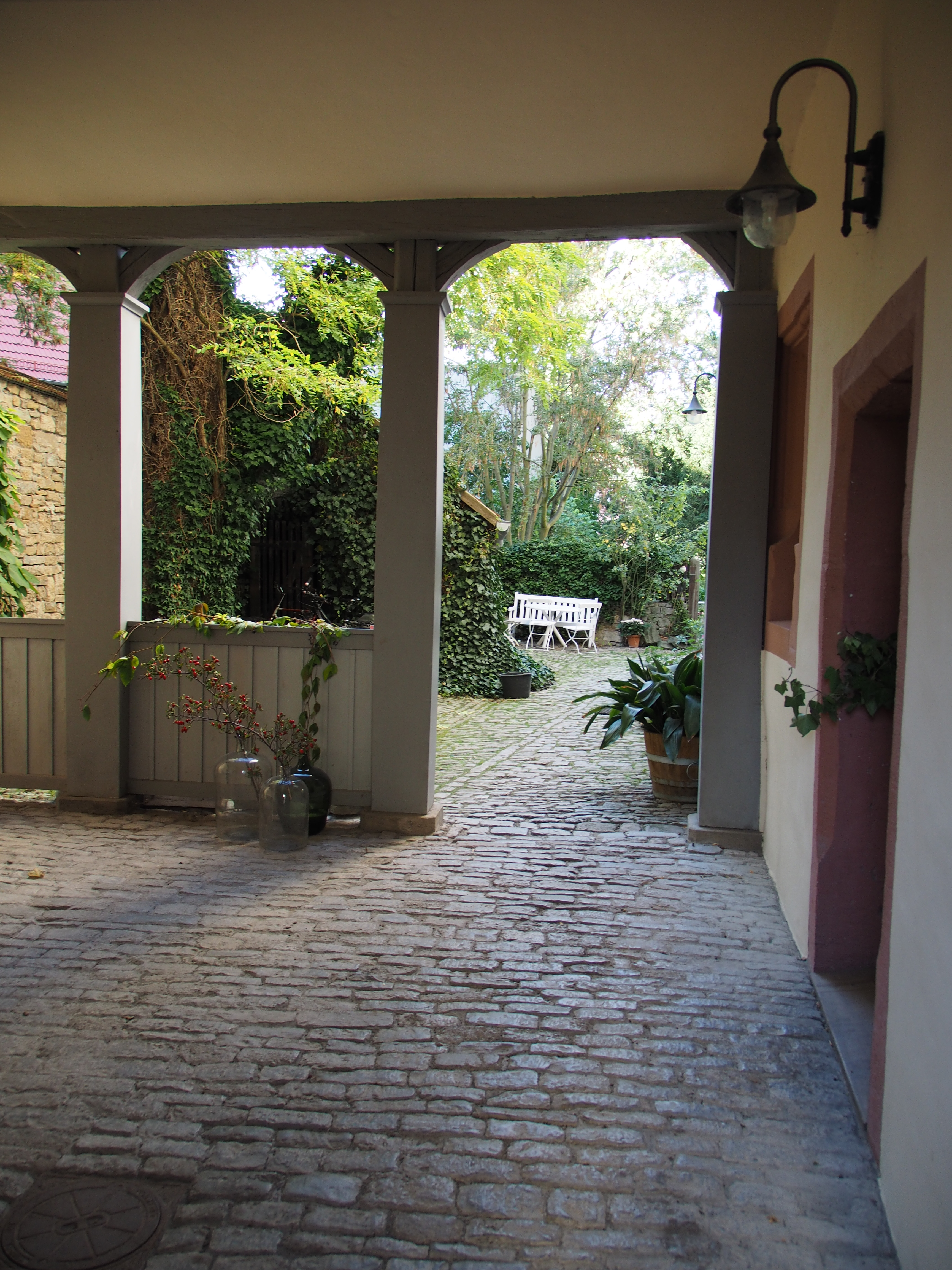 House and Historic Herder Garden, Weimar